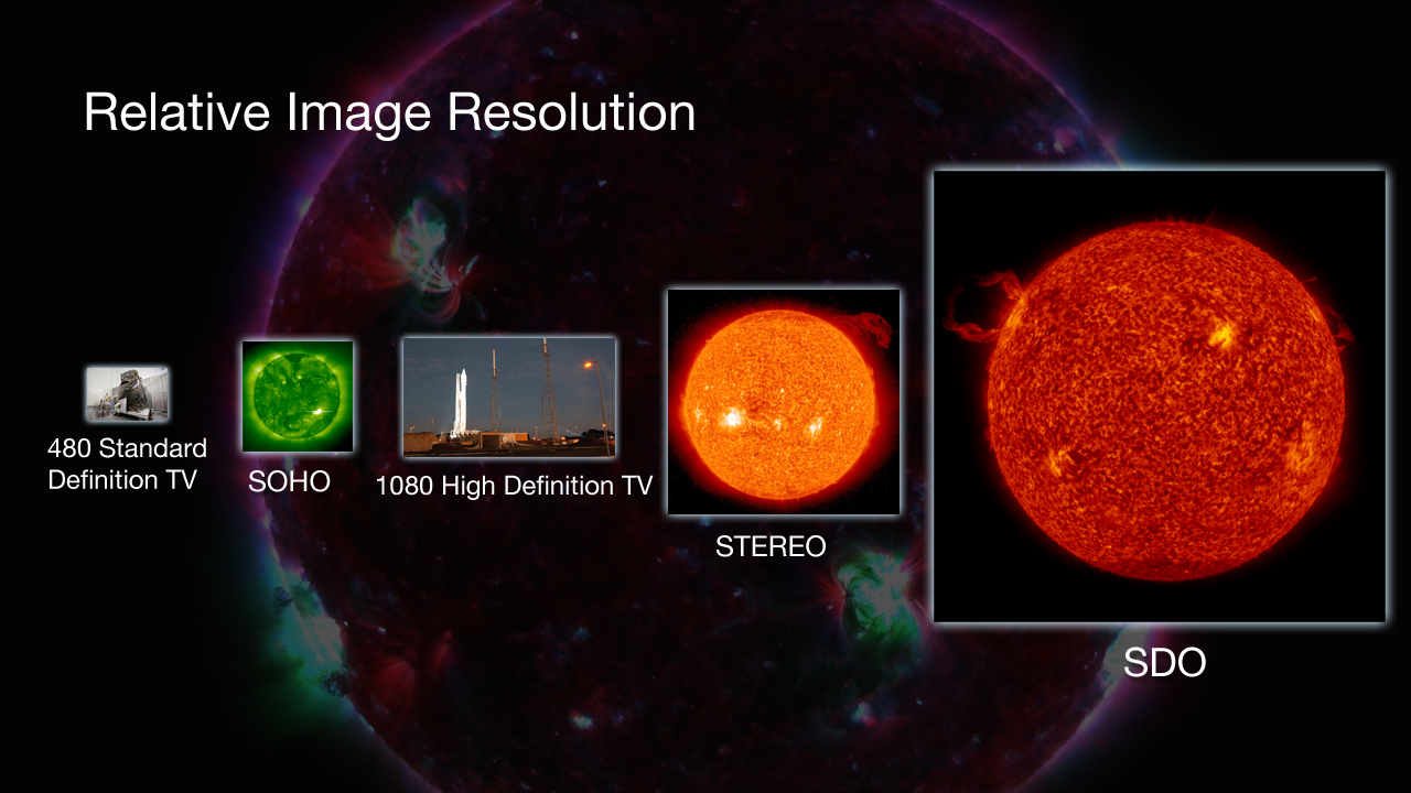 This image compares the relative size of SDO's imagery to that of other missions.